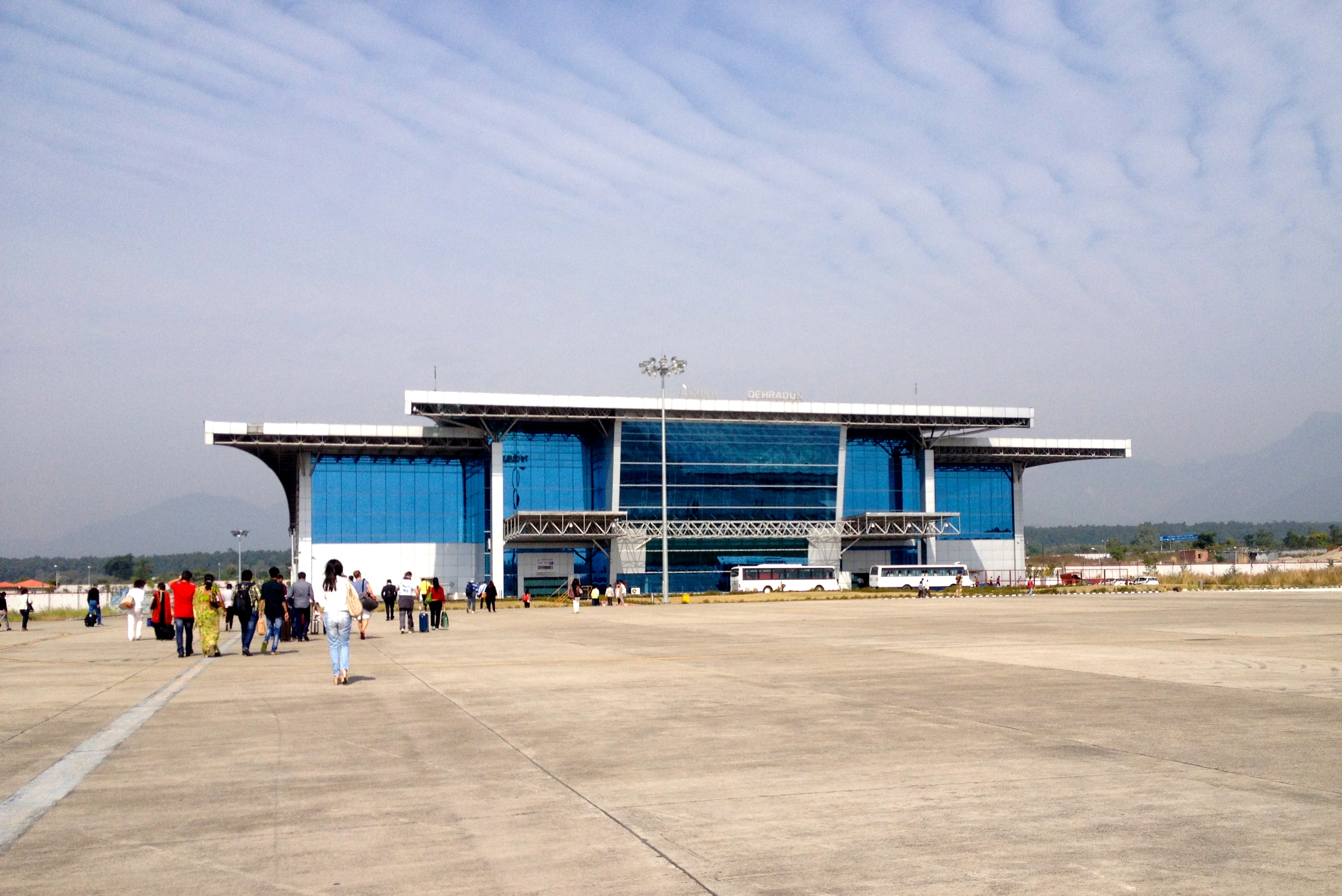 Airside view of the air terminal at Dehradun, India